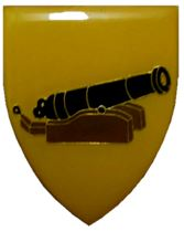 SADF era Smithfield Commando emblem